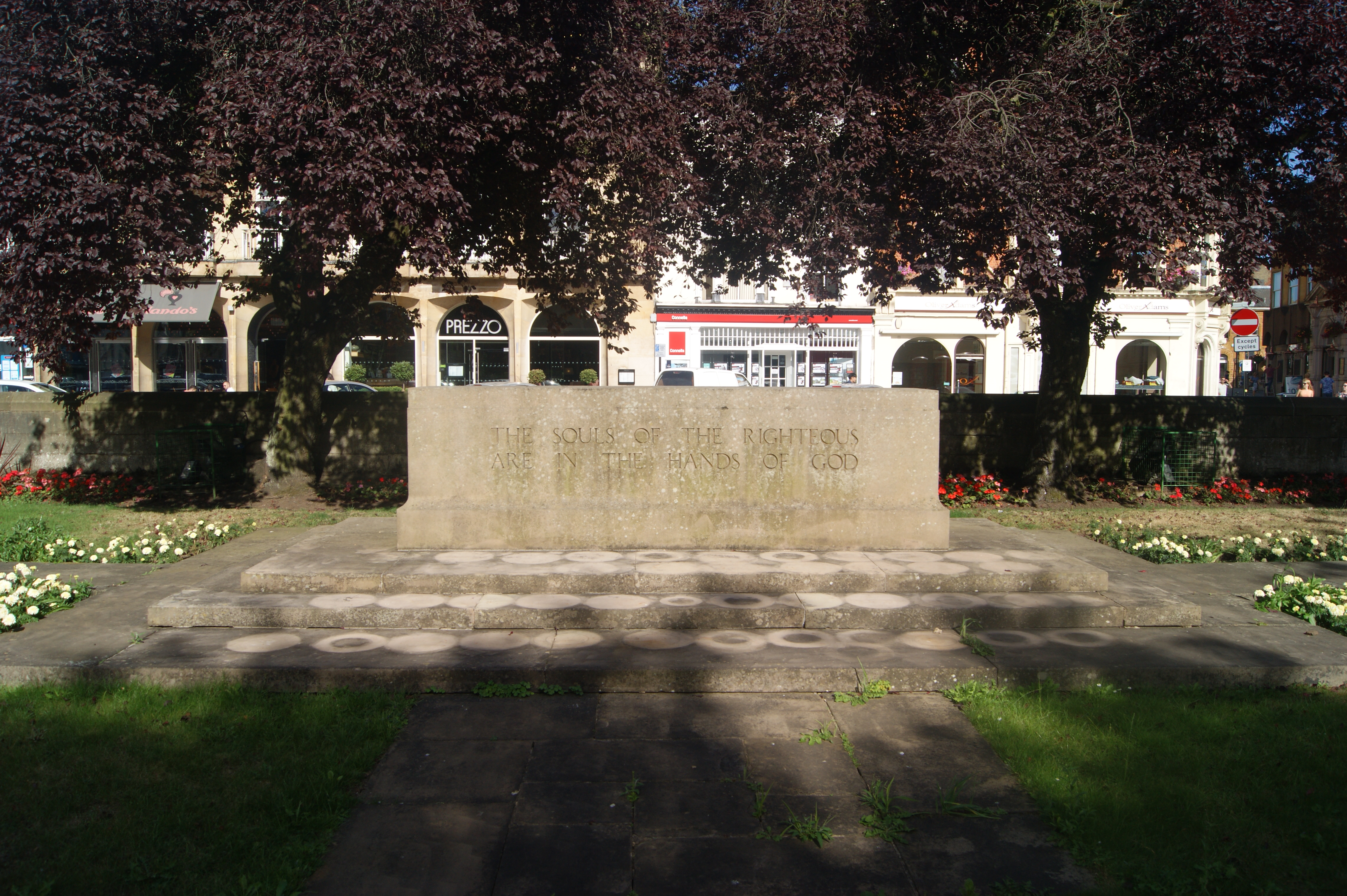 Northampton's Town and County War Memorial, by All Saints' Church. Designed by Sir Edwin Lutyens and a grade I listed building.